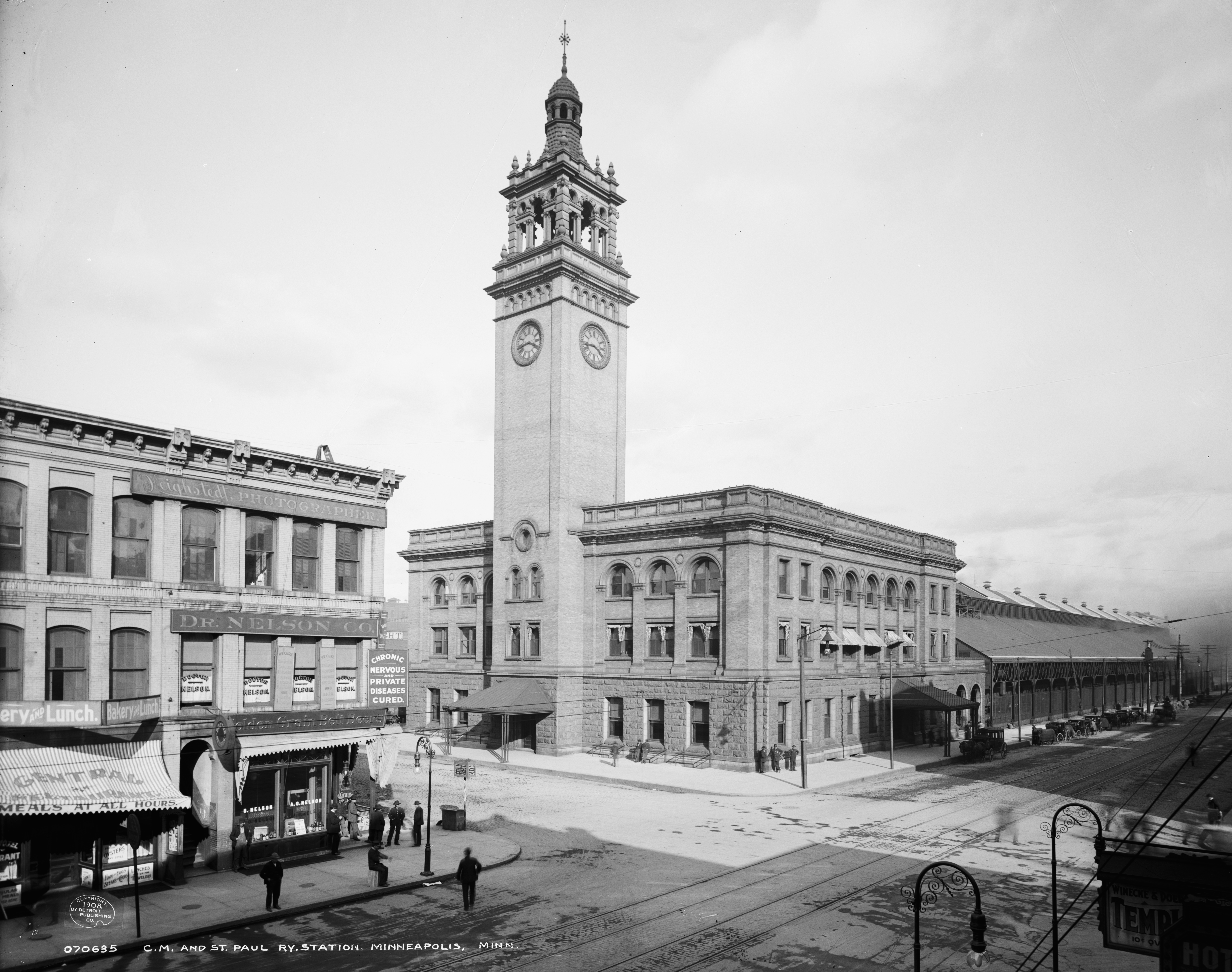 C.M. & St. Paul Ry. Station, Minneapolis, Minn. Medium: 1 negative : glass ; 8 x 10 in. Reproduction Number: LC-D4-70635 (b&w glass neg.) Call Number: LC-D4-70635 [P&P] Repository: Library of Congress Prints and Photographs Division Washington, D.C. 20540 USA Notes: "G 4668" on negative. Detroit Publishing Co. no. 070635. Gift; State Historical Society of Colorado; 1949.